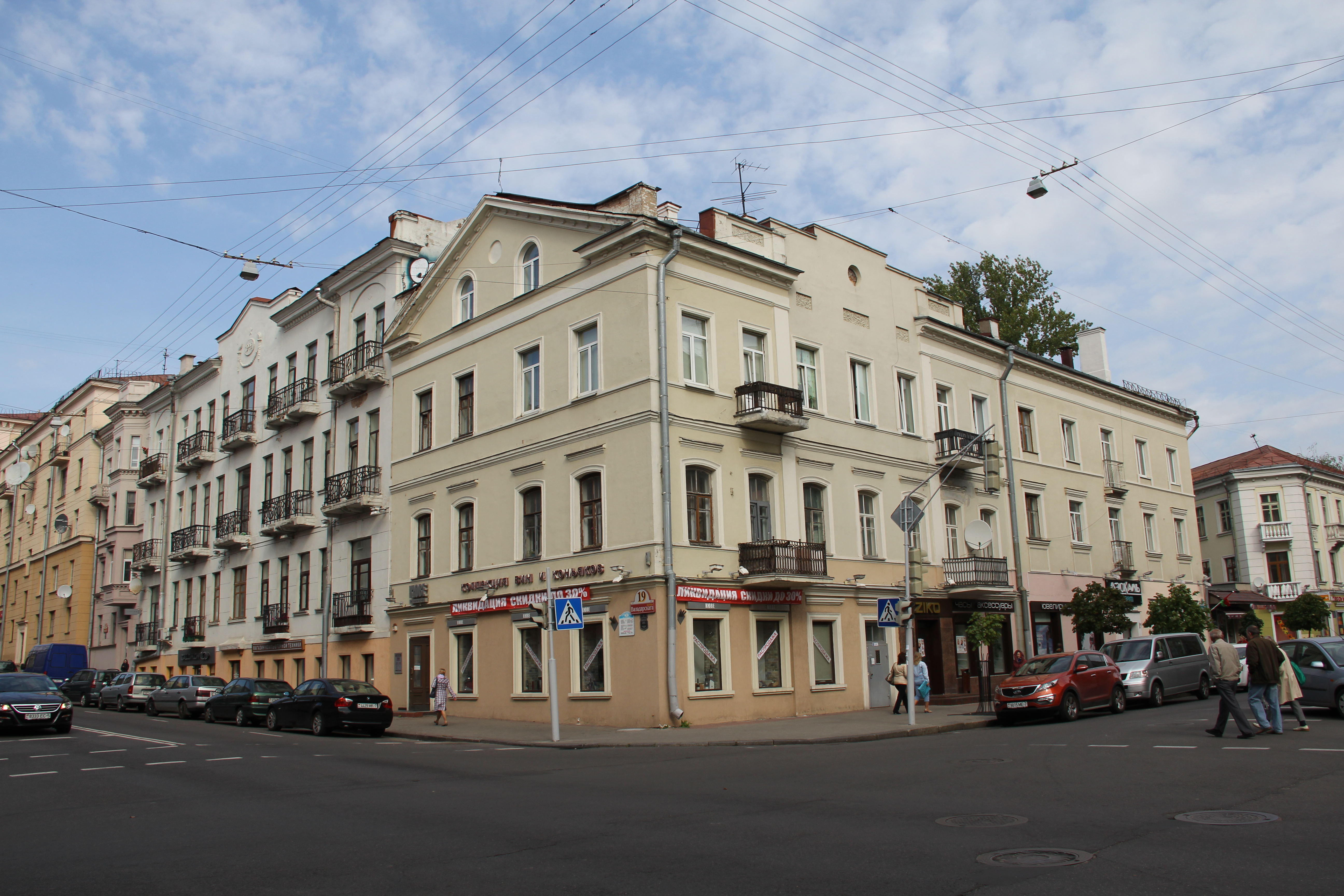 Беларуская (тарашкевіца): Будынак. г. Менск This is a photo of Belarusian heritage monument. Reference number: 713Г000026 ( WLM)